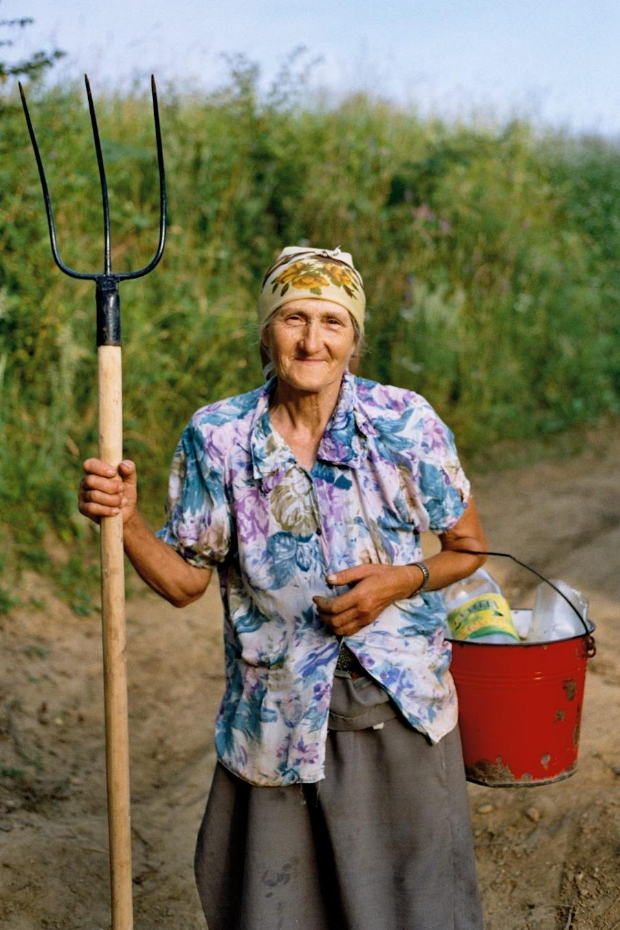 An old farmer woman with pitchfork and bucket, Eastern Europe.